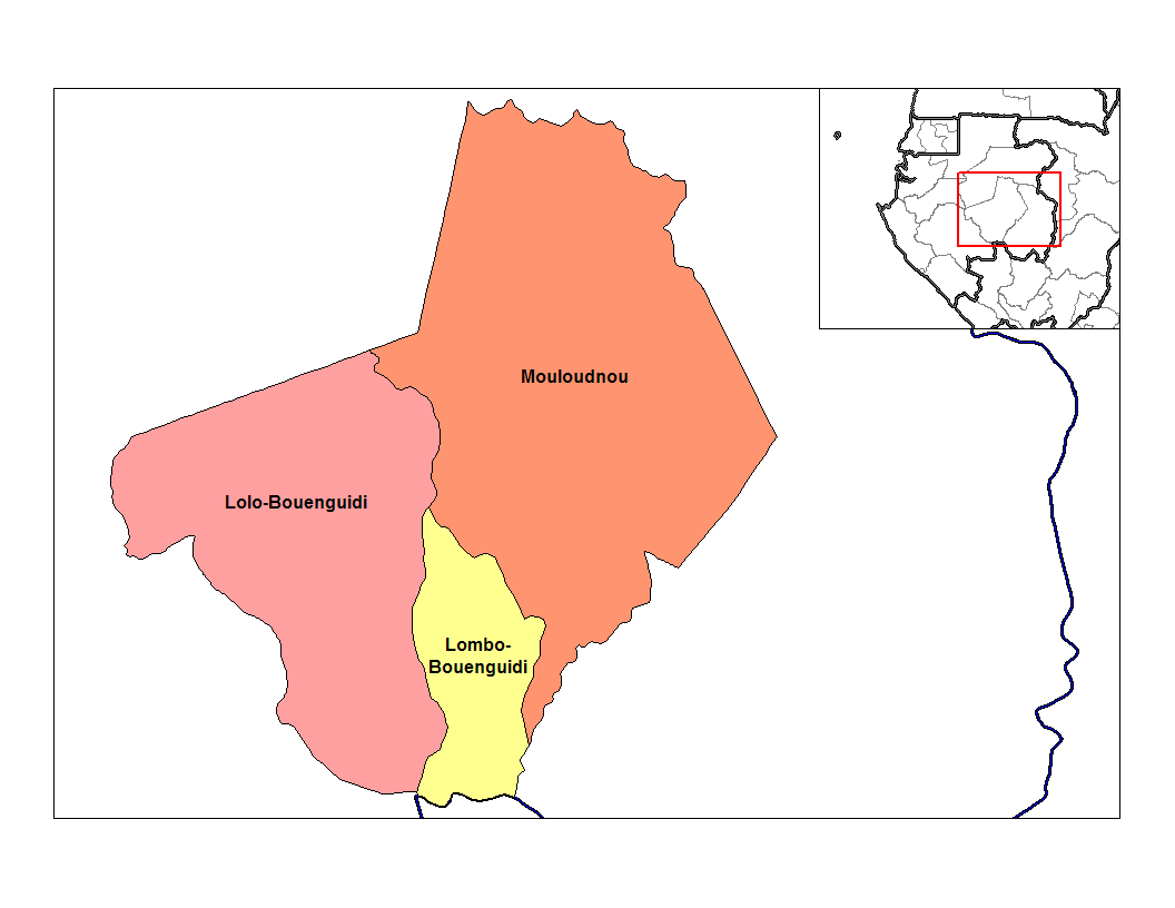 Map of the departments of Ogooue-Lolo province in Gabon.